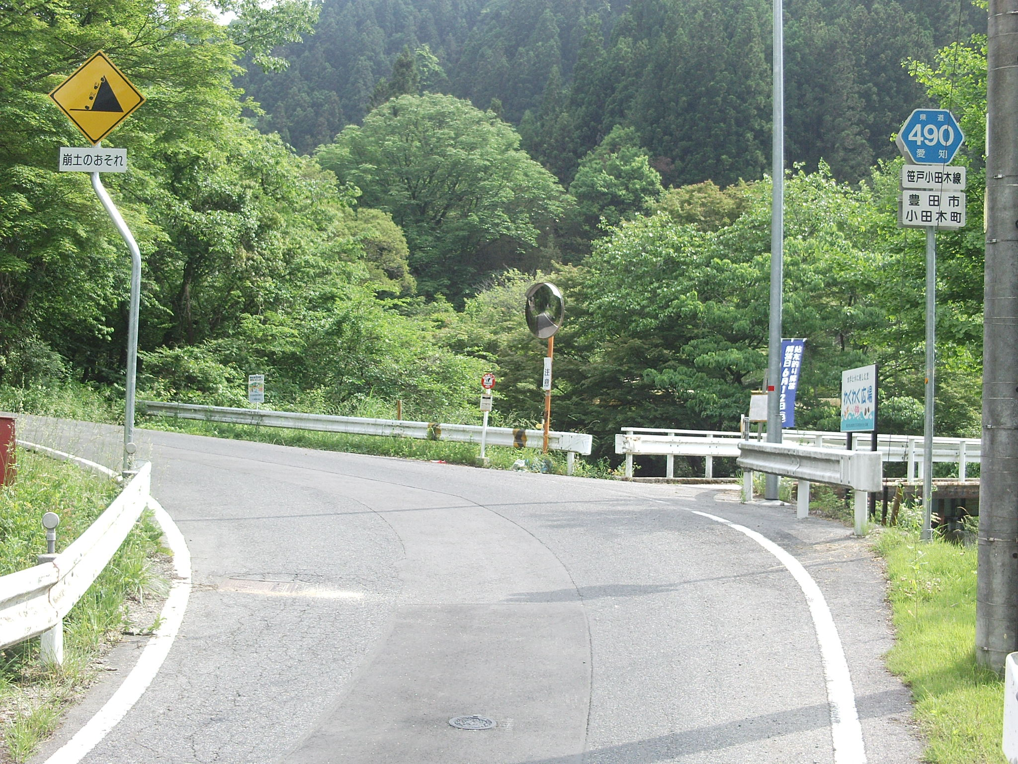 Aichi prefectural road No.490 in Otagicho, Toyota, Aichi.